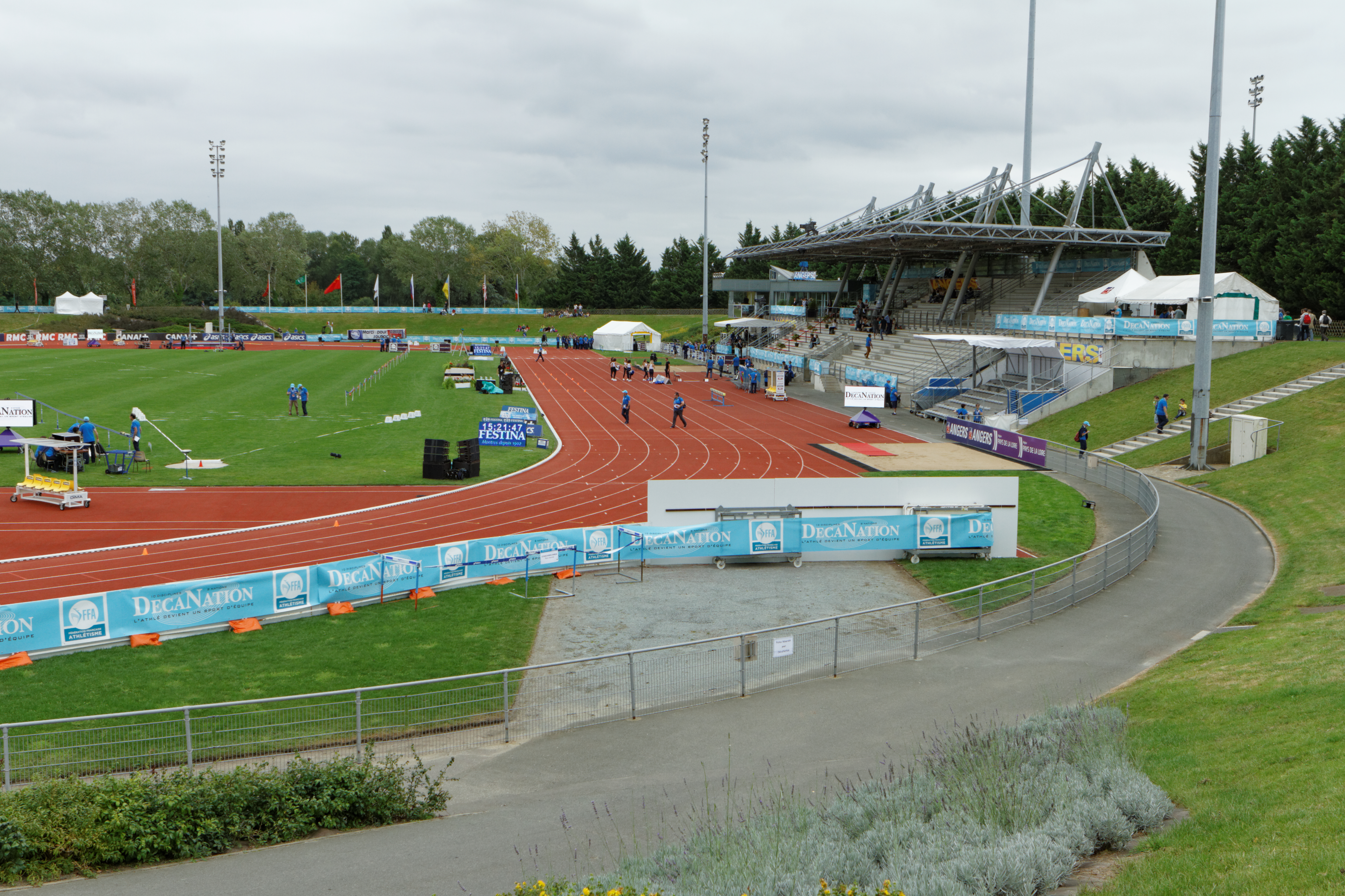 DécaNation 2014.